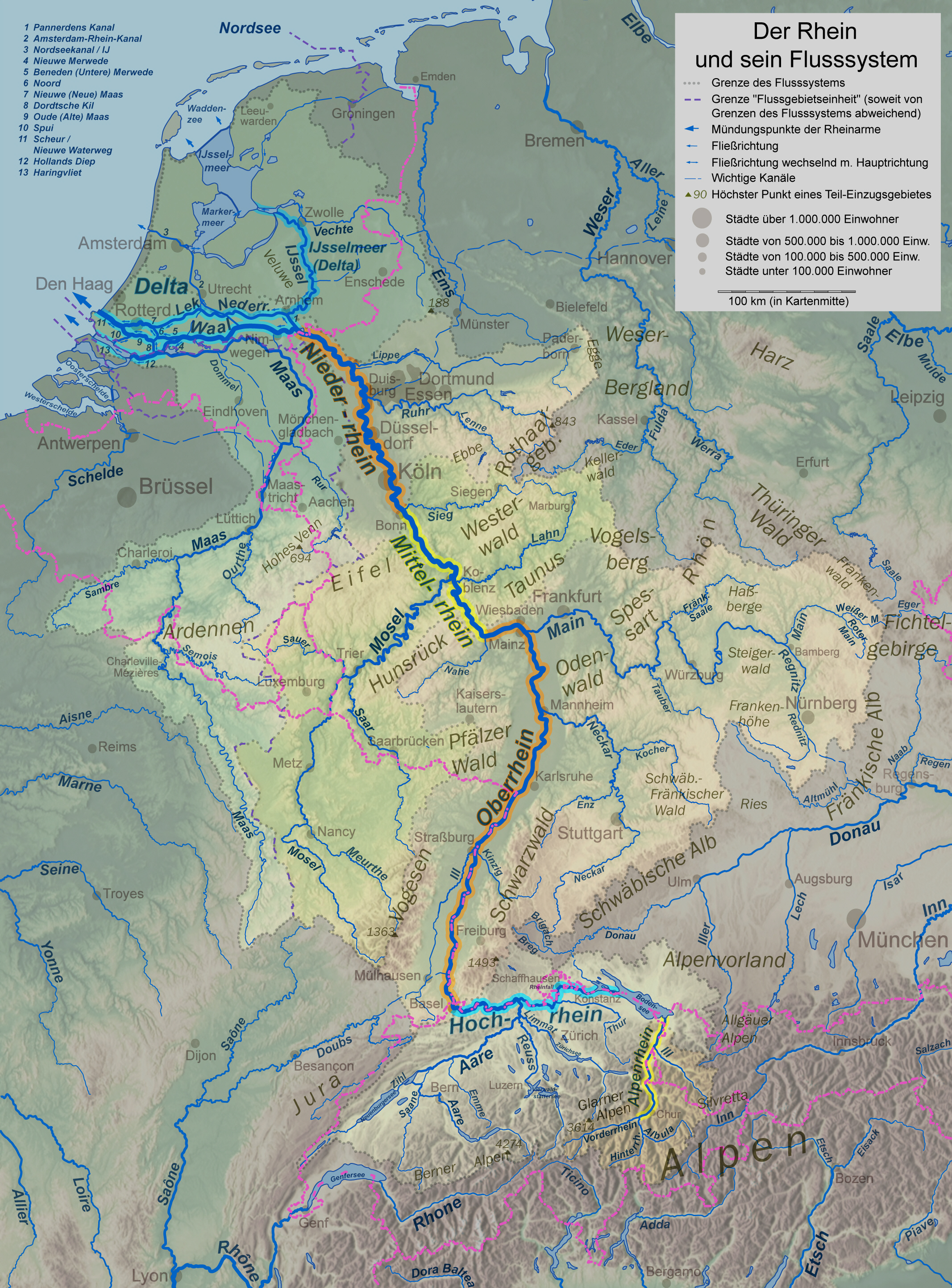 Map of the Rhine course and it's major tributaries, german labels